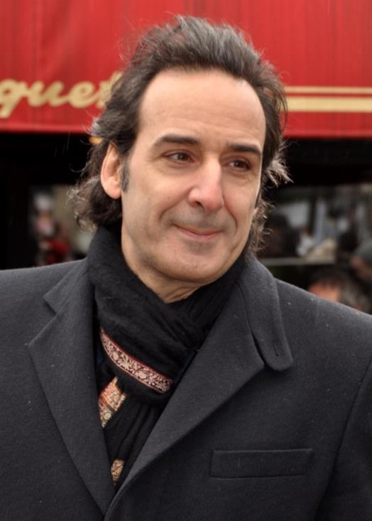 Alexandre Desplat in 2013, at the luncheon for the 2013 César Awards